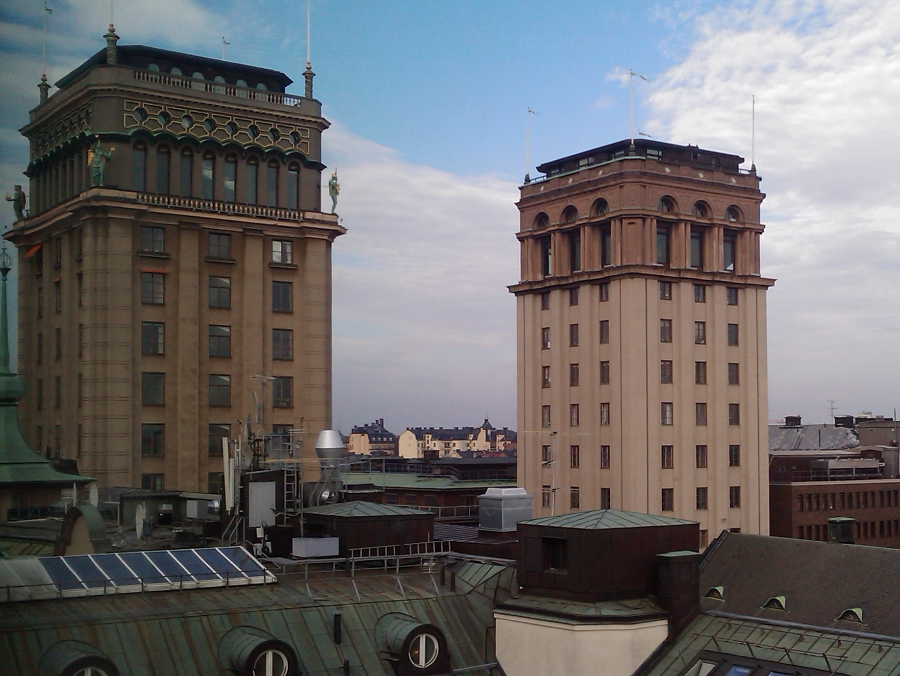 Kungstornen to W